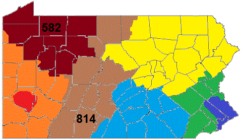 Rough description by county as to where area code 582 was supposed to go as well as show where 814 was to remain.